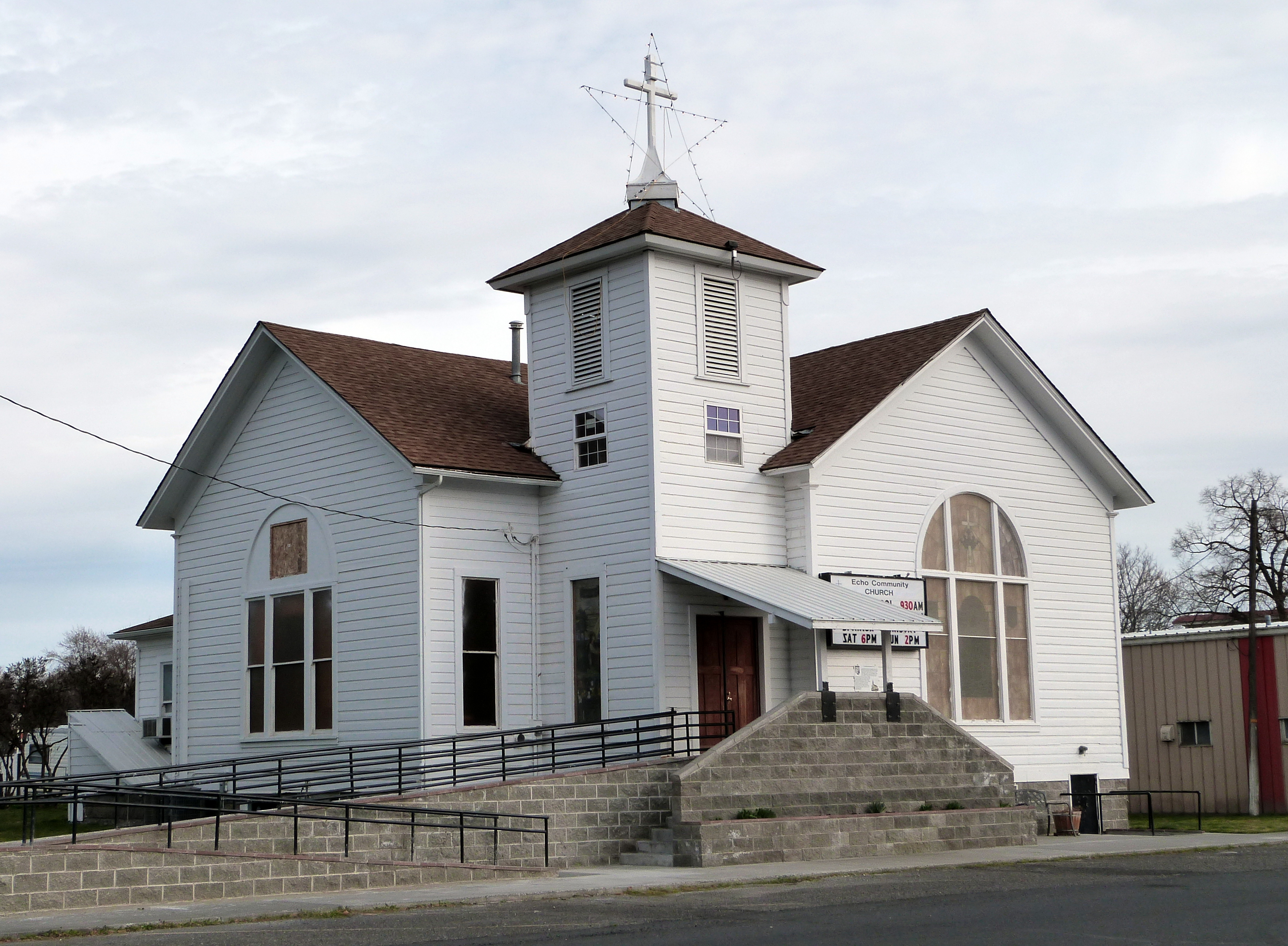 The historic Echo Community Church (historically Echo Methodist Church, built 1886), located at 21 North Bonanza Street in Echo, Oregon, United States, is listed on the US National Register of Historic Places.